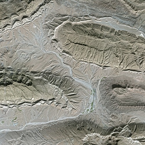 Zagros Mountains by SPOT Satellite